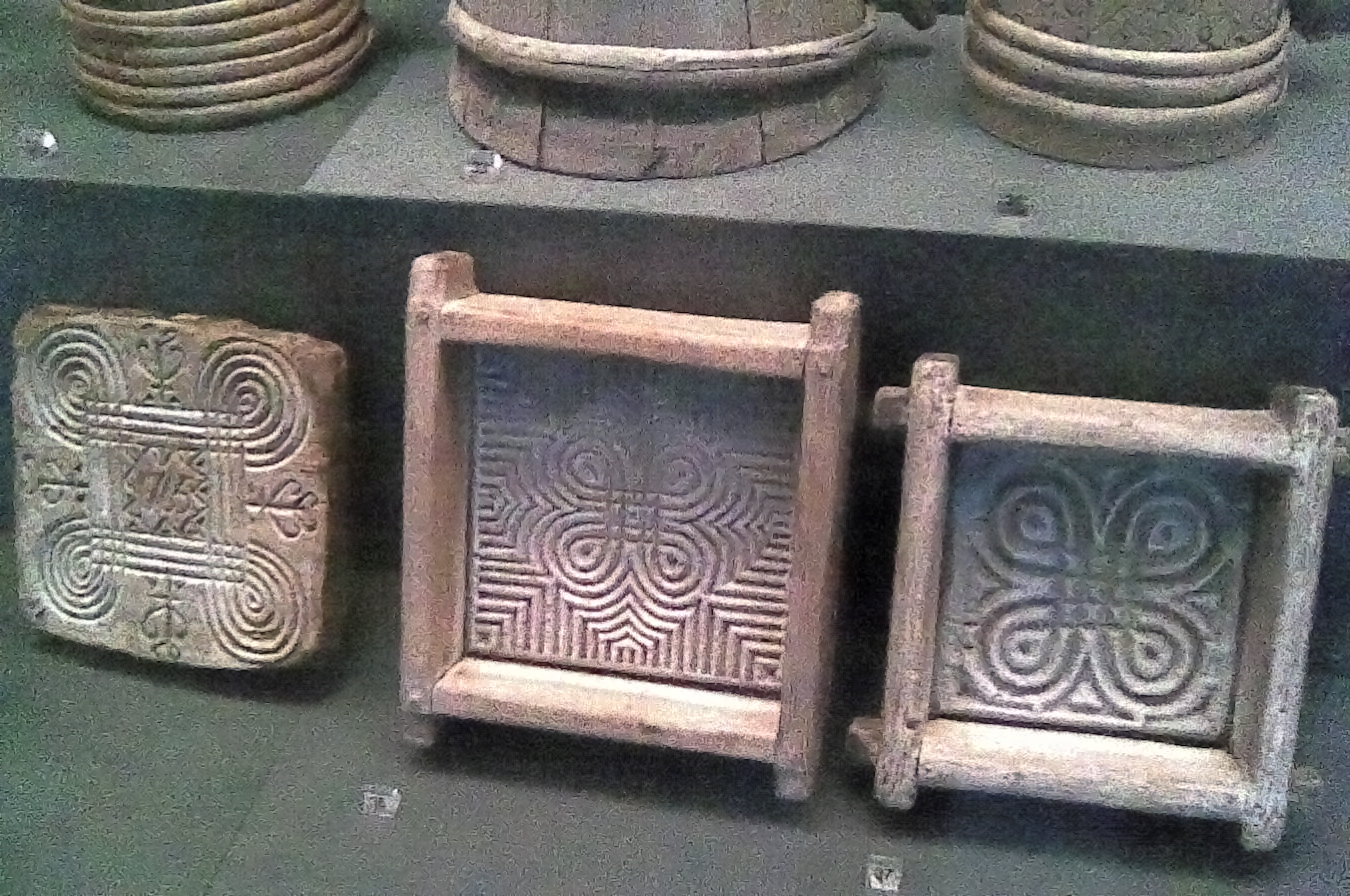 Cheese moulds with looped square motif, seen in the Finnish National Museum, Helsinki.